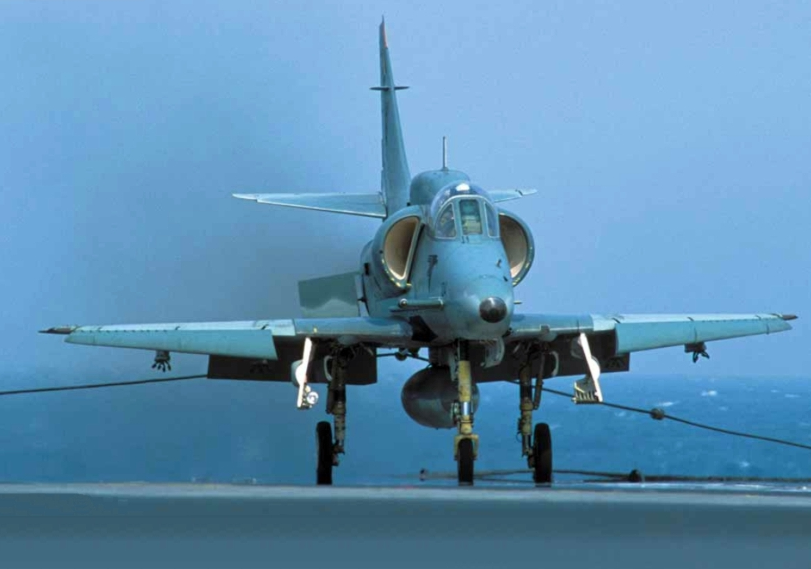 A Brazilian Navy McDonnell Douglas AF-1 Skyhawk (A-4KU) from fighter squadron VF-1 Falcõnes catching the arrestor wire aboard the aircraft carrier Saõ Paulo (A12), in 2003.